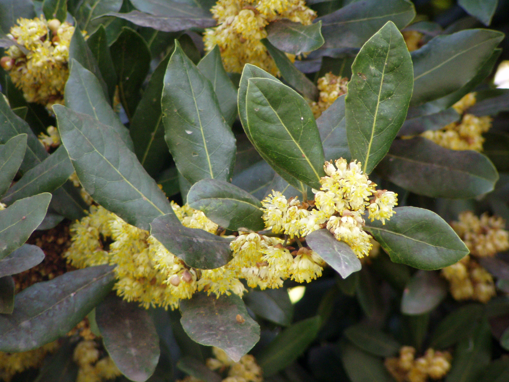 Laurel